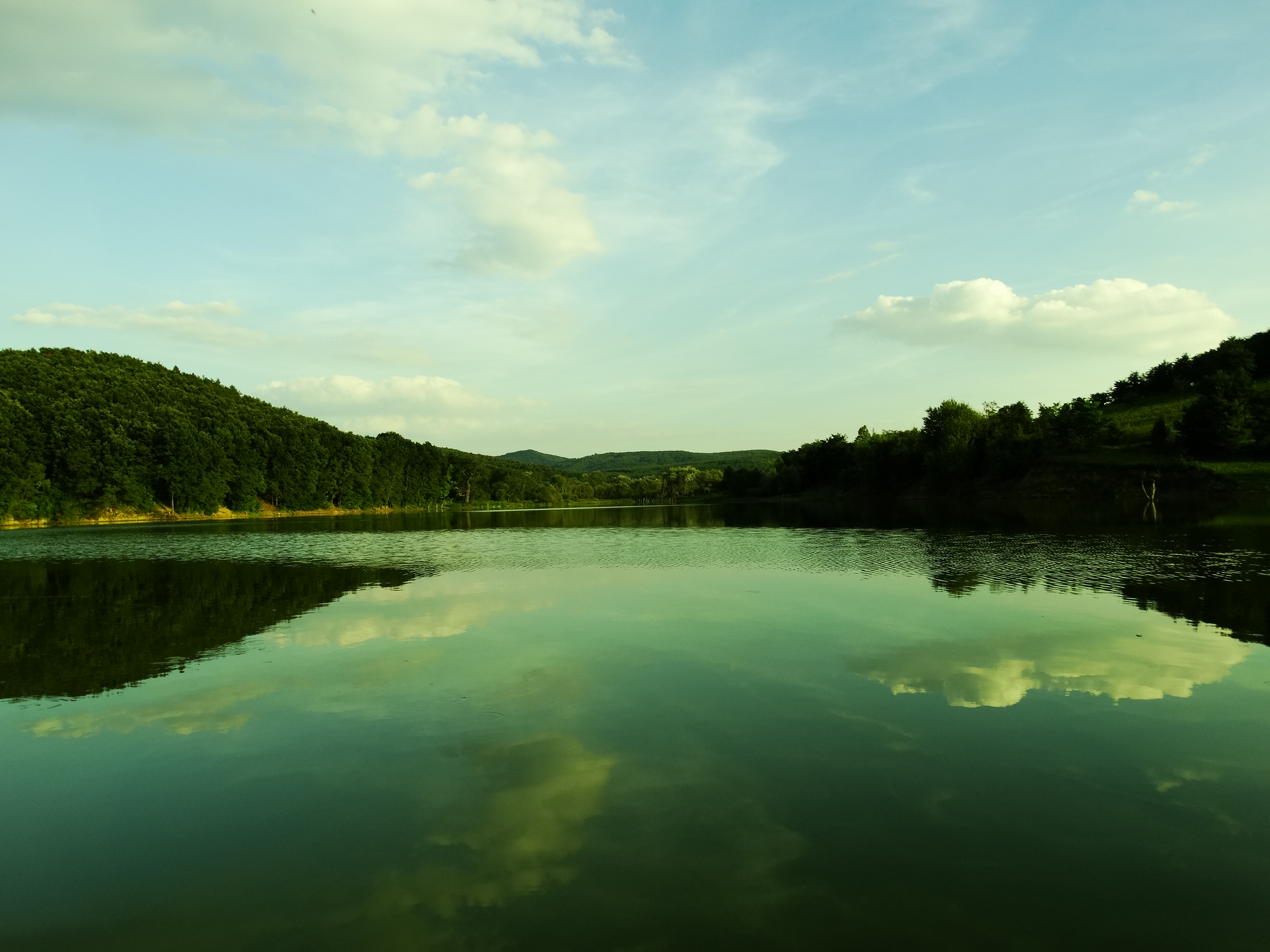 Lake of Tábpuszta